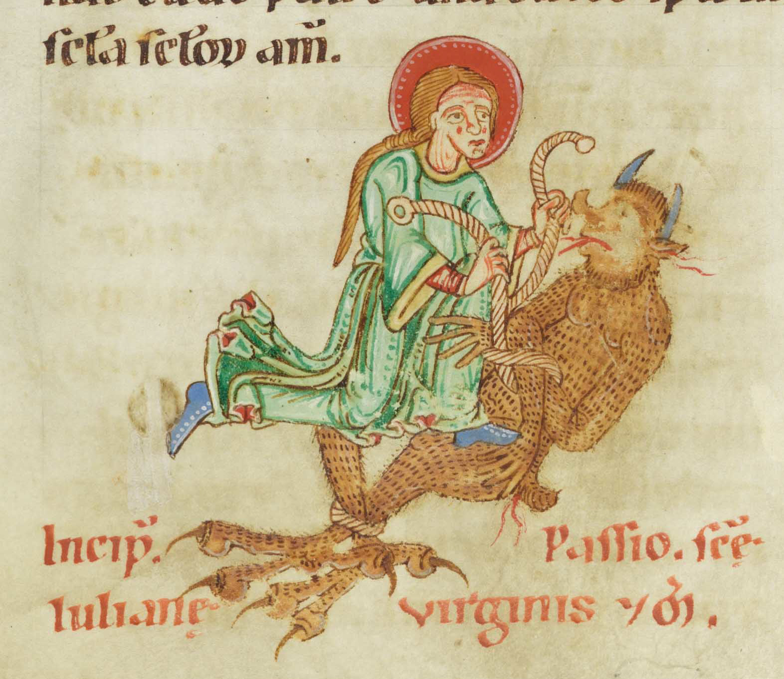 Saint Juliana and a demon. Illumination from the Passionary of Weissenau (Weißenauer Passionale); Fondation Bodmer, Coligny, Switzerland; Cod. Bodmer 127, fol. 44v.